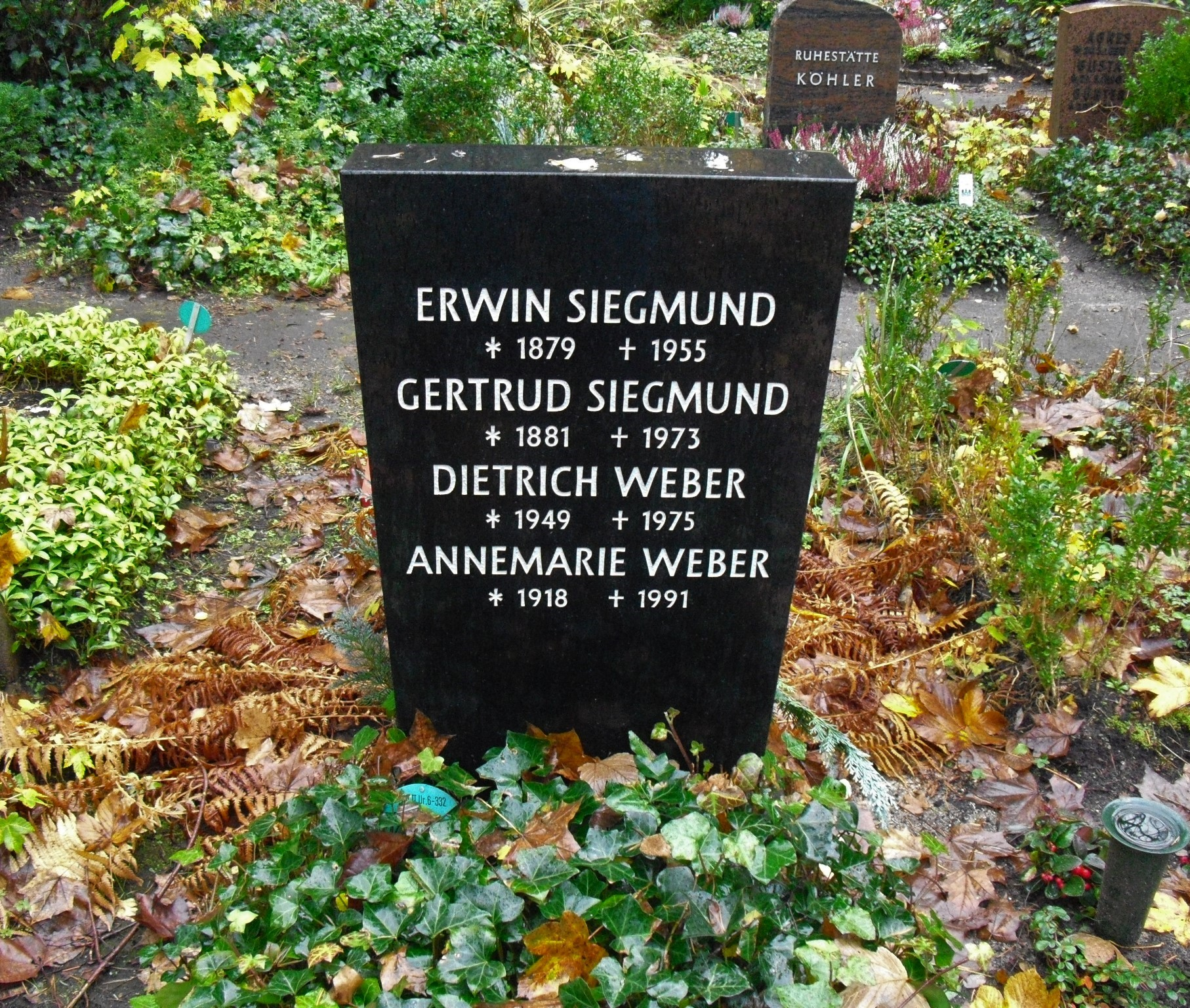 Grave of German writer Annemarie Weber in Friedhof Heerstraße in Berlin-Westend